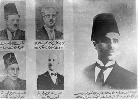 photo of an affiche of Neo-Destour party — Tunisia.